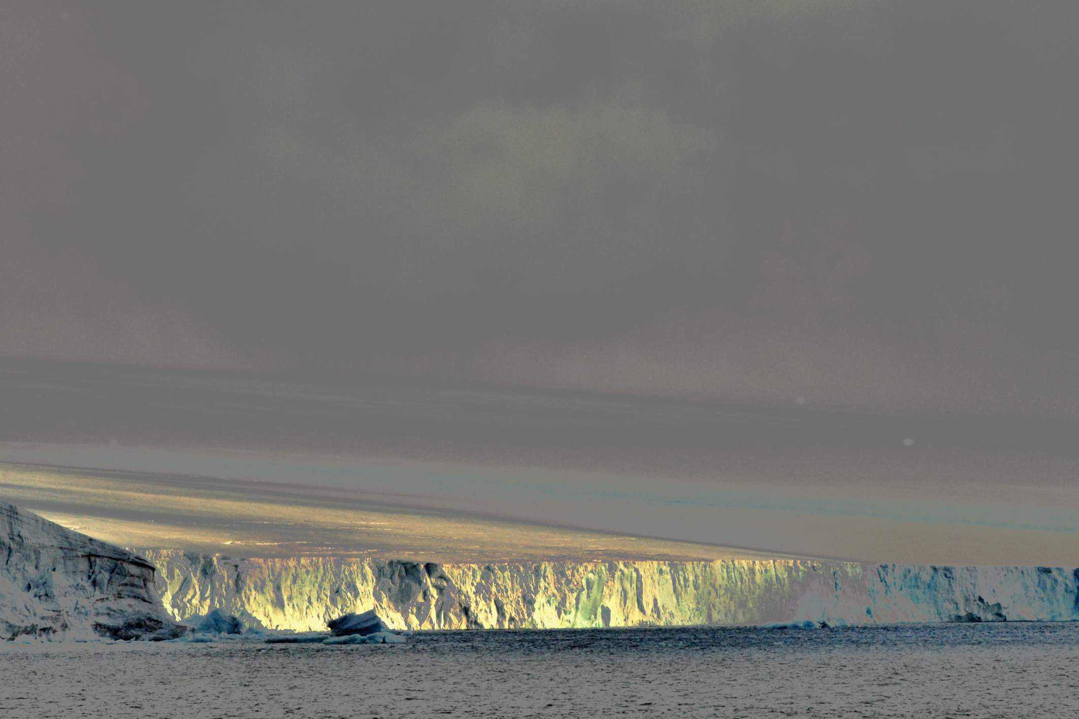 Glacier near Cape Fligely (Northern tip of Rudolf Island, Franz Josef Archipelago, Russia; 81°50‘35’’N, 59°14‘22’’E)